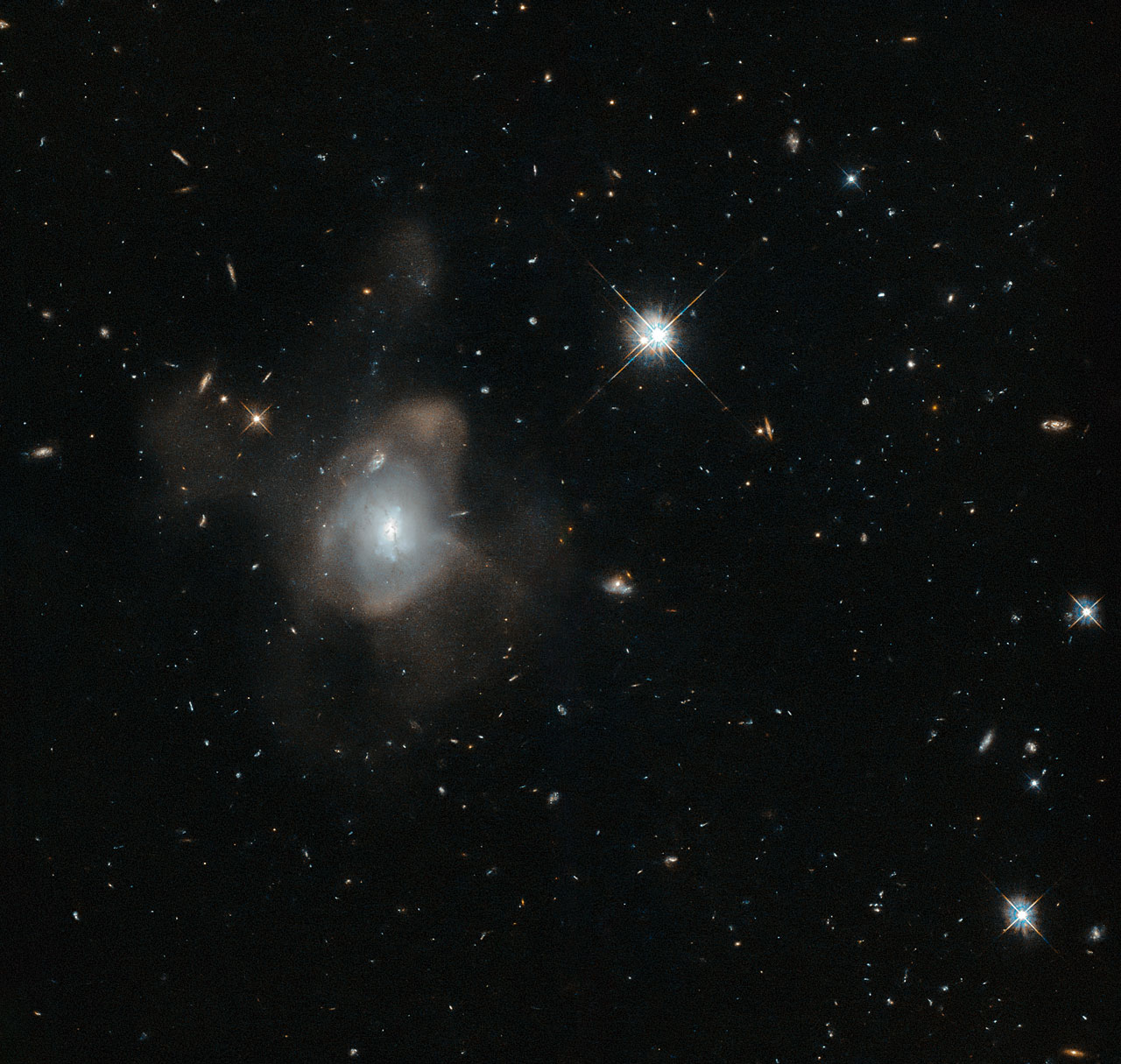 This curious galaxy — only known by the seemingly random jumble of letters and numbers 2MASX J16270254+4328340 — has been captured by the NASA/ESA Hubble Space Telescope dancing the crazed dance of a galactic merger. The galaxy has merged with another galaxy leaving a fine mist, made of millions of stars, spewing from it in long trails. Despite the apparent chaos, this snapshot of the gravitational tango was captured towards the event’s conclusion. This transforming galaxy is heading into old age with its star-forming days coming to an end. The true drama occurred earlier in the process, when the various clouds of gas within the two galaxies were so disturbed by the event that they collapsed, triggering an eruption of star formation. This flurry of activity exhausted the vast majority of the galactic gas, leaving the galaxy sterile and unable to produce new stars. As the violence continues to subside, the newly formed galaxy’s population of stars will redden with age and eventually begin drop off one by one. With no future generations of stars to take their place, the galaxy thus begins a steady descent towards death.